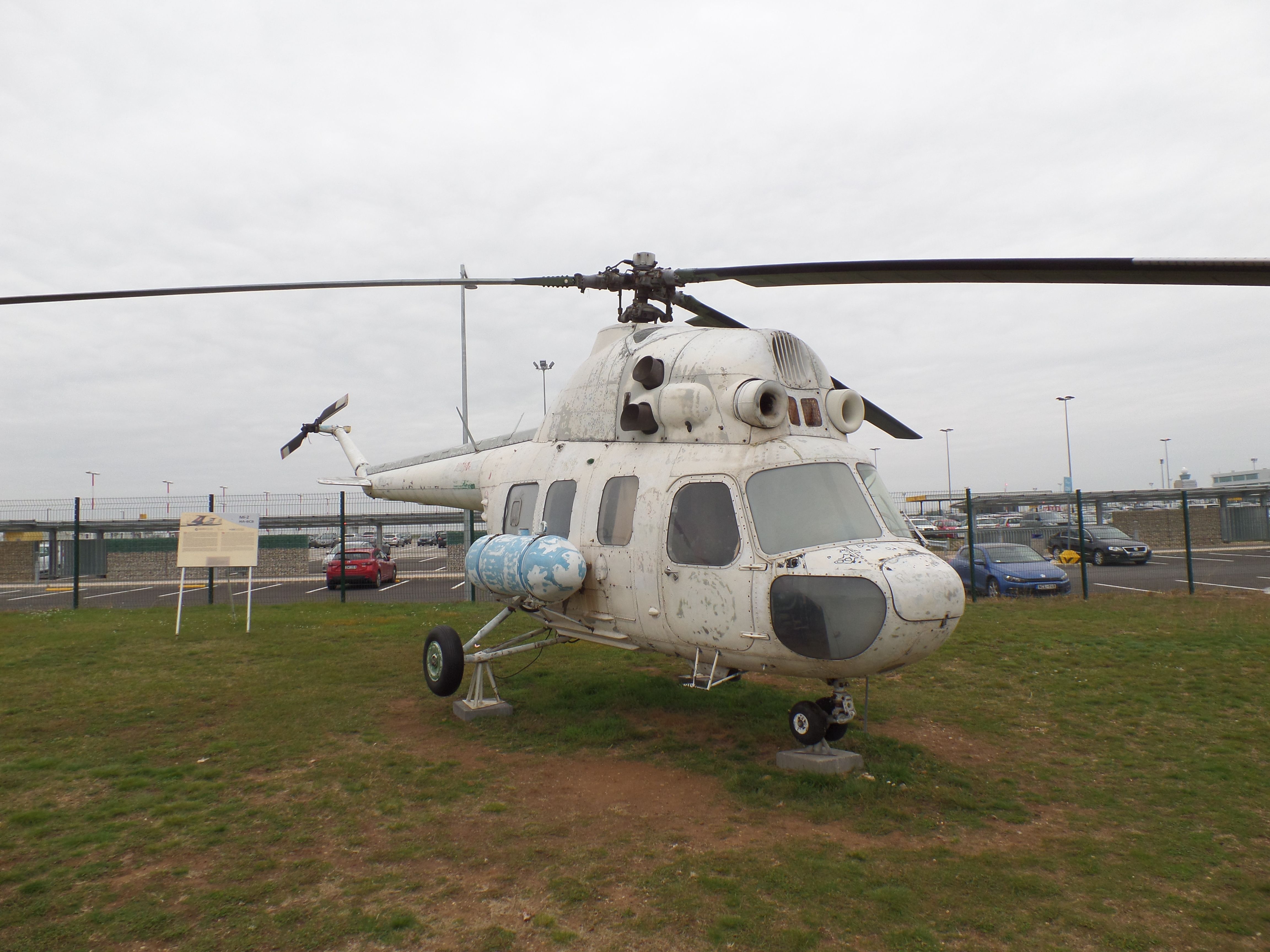 Mil Mi-2 HA-BCB at Aeropark Hungary on 20 October, 2016.